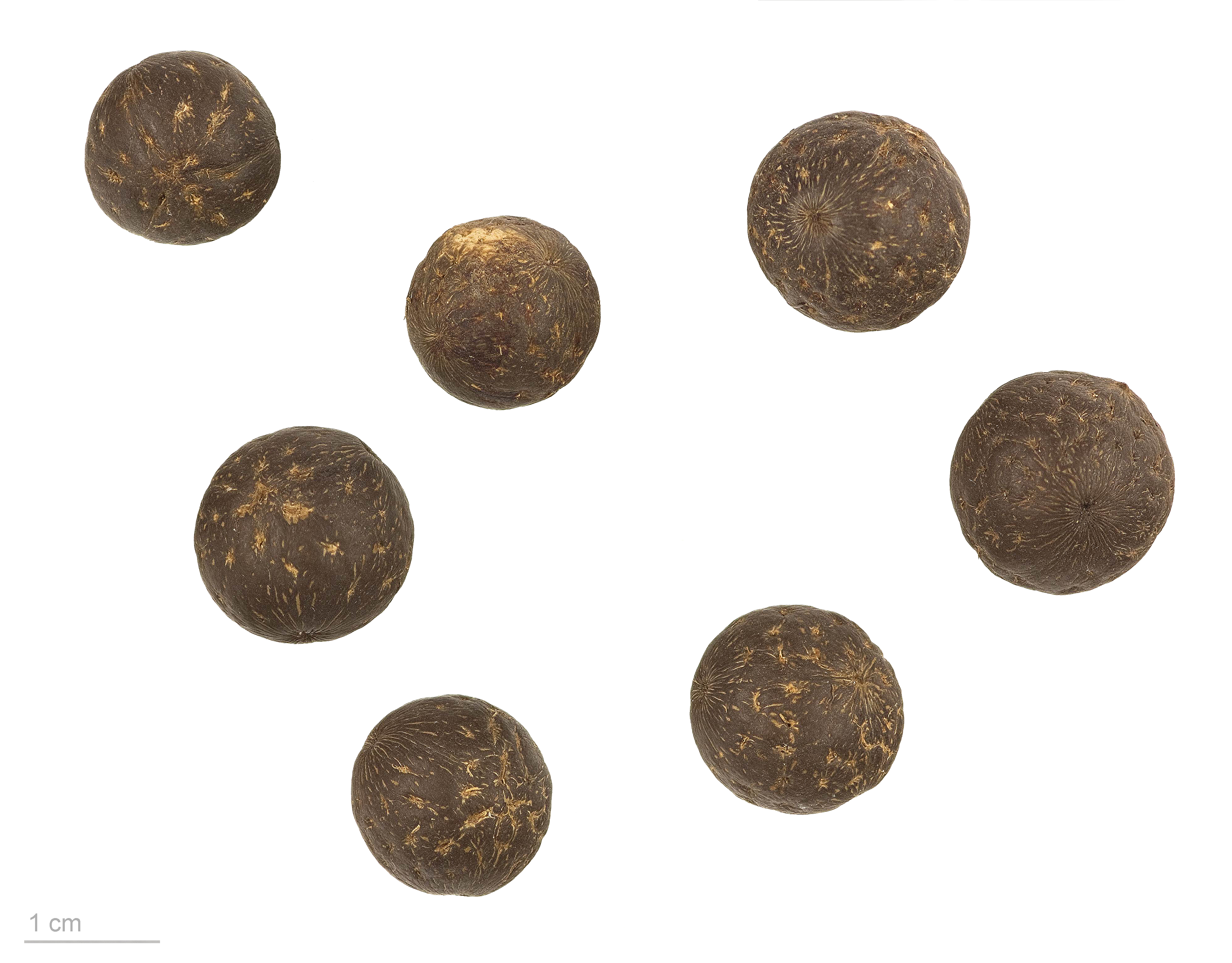 açaí palm, fruits and seeds